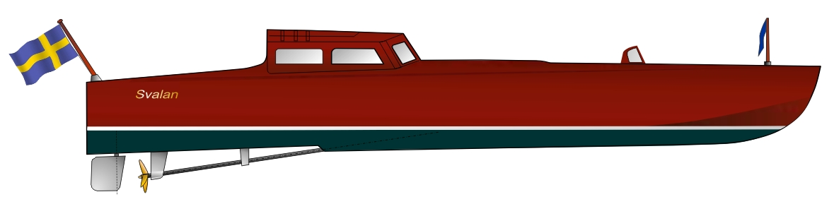 Sketch showing Ivar Kreugers specially designed private motor yacht 'Svalan' built in 1928 at "Lidingövarvet" (ship yard), Sweden. The crew (2 persons) was controlling the yacht from a position in the front part of the deck where the small wind shield is shown in the figure. Basic data: Engine: V12 gasoline, 650 hp. Length: 11.4 m, Weight: 4.9 ton, Max. speed: 52 knots. Reference: Museum for old swedish motor yachts, Linköping, Sweden.